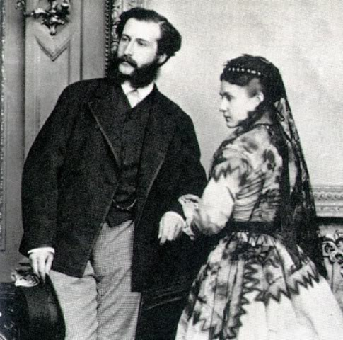 The Duke Phillip of Württemberg and his wife the Archduchess Marie Therese of Austria-Teschen.